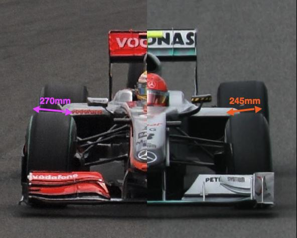 Comparison of the front tyre widths from 2009 and 2010